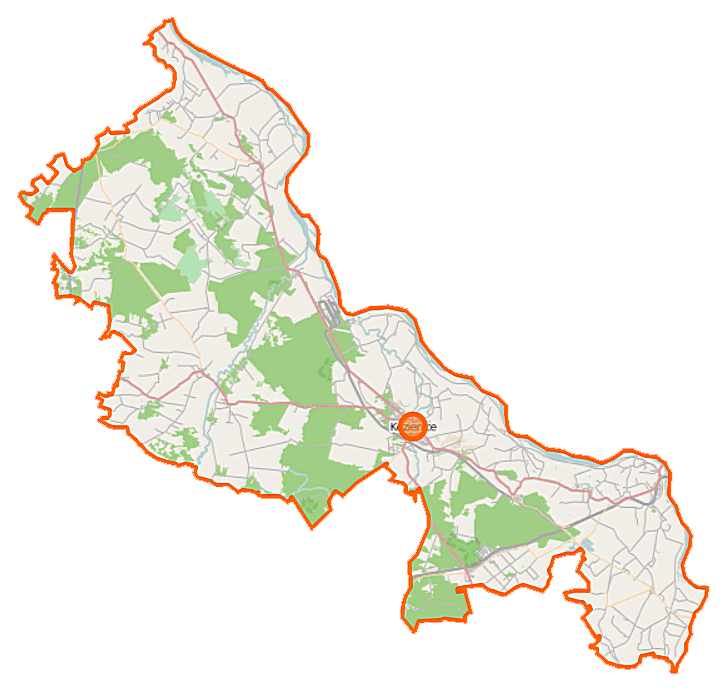 Map of Powiat kozienicki, Poland This map of Powiat kozienicki was created from OpenStreetMap project data, collected by the community. This map may be incomplete, and may contain errors. Don't rely solely on it for navigation. Border coordinates51.874821.0965←↕→21.894451.3992